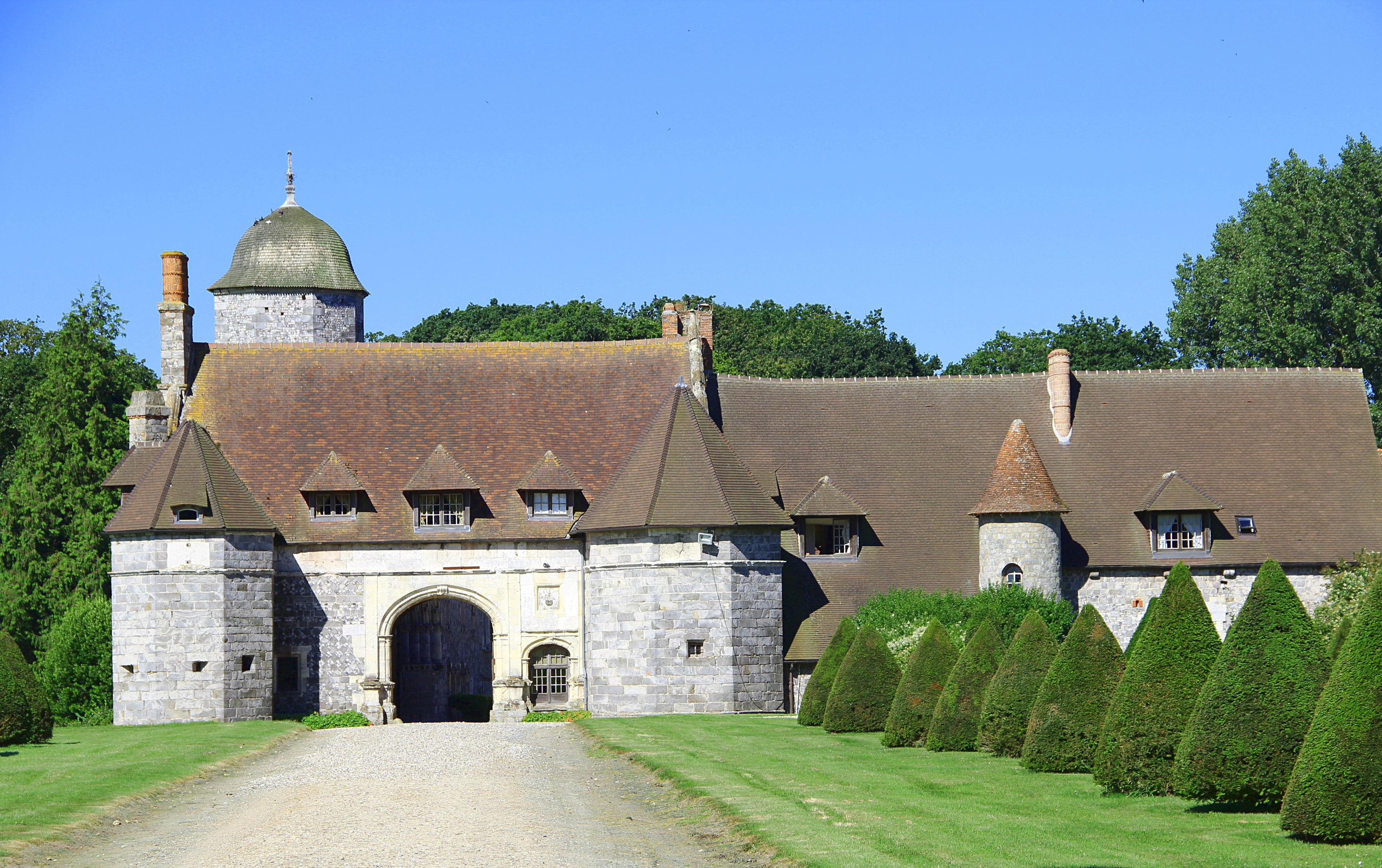 Varengeville-sur-Mer (Seine-Maritime - France), the manor of Ango (1530-1544).